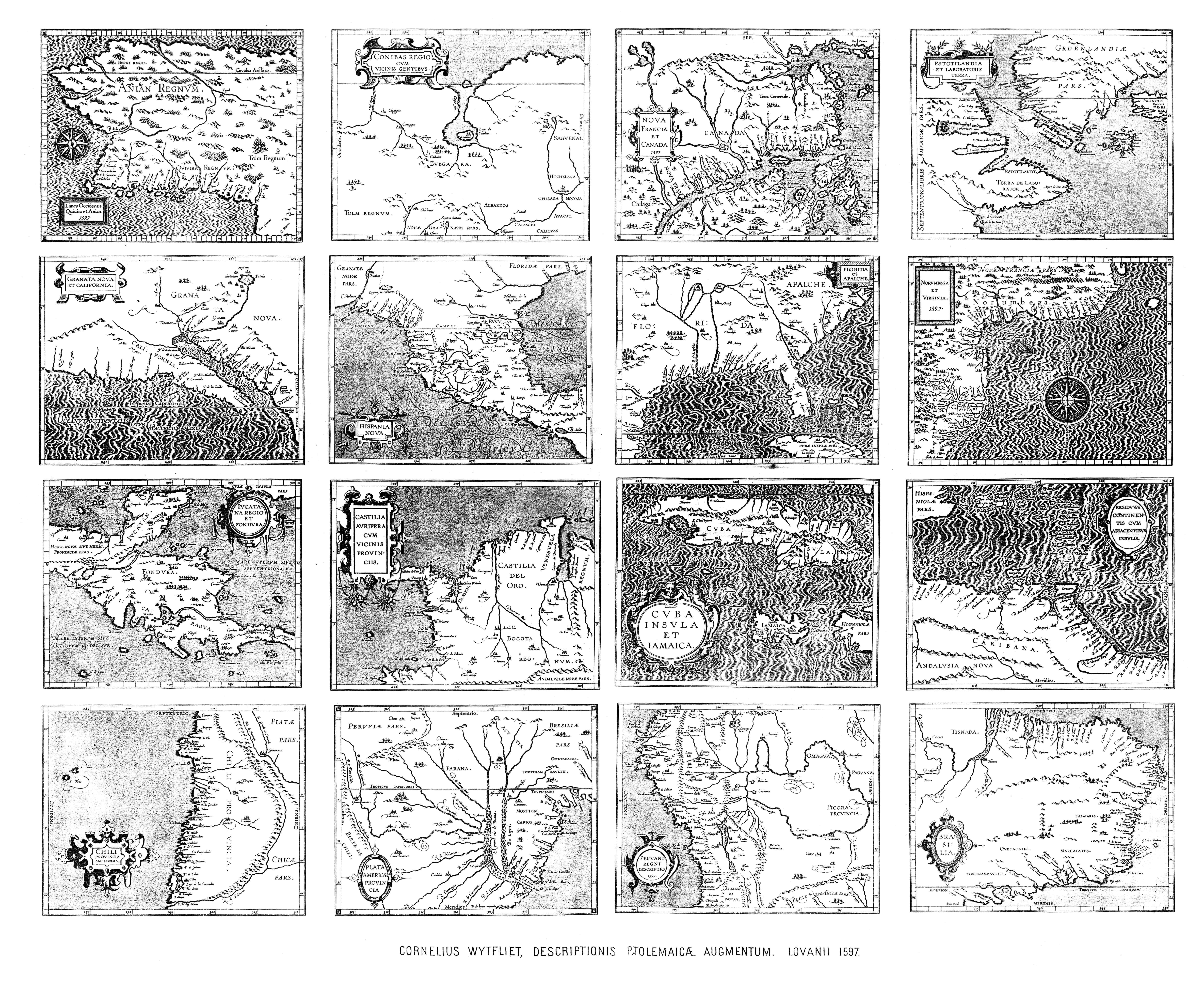 An atlas of the Americas by Cornelius Wytfliet, printed in Belgium 1597. The maps have no specific projection. The origin of the cartographic data about Alaska and parts of Canada is a mystery.